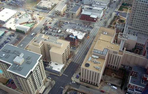 Rufus Rose House Aerial